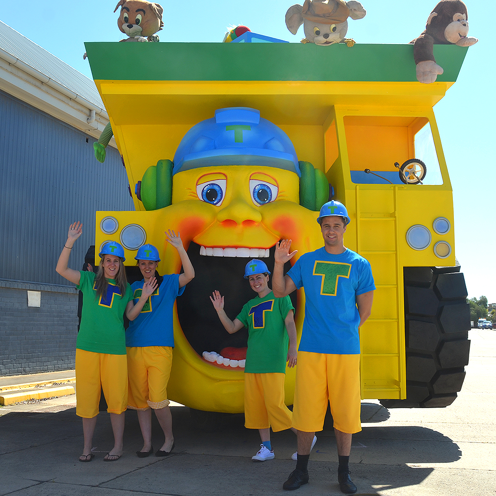 Toby Toy Truck